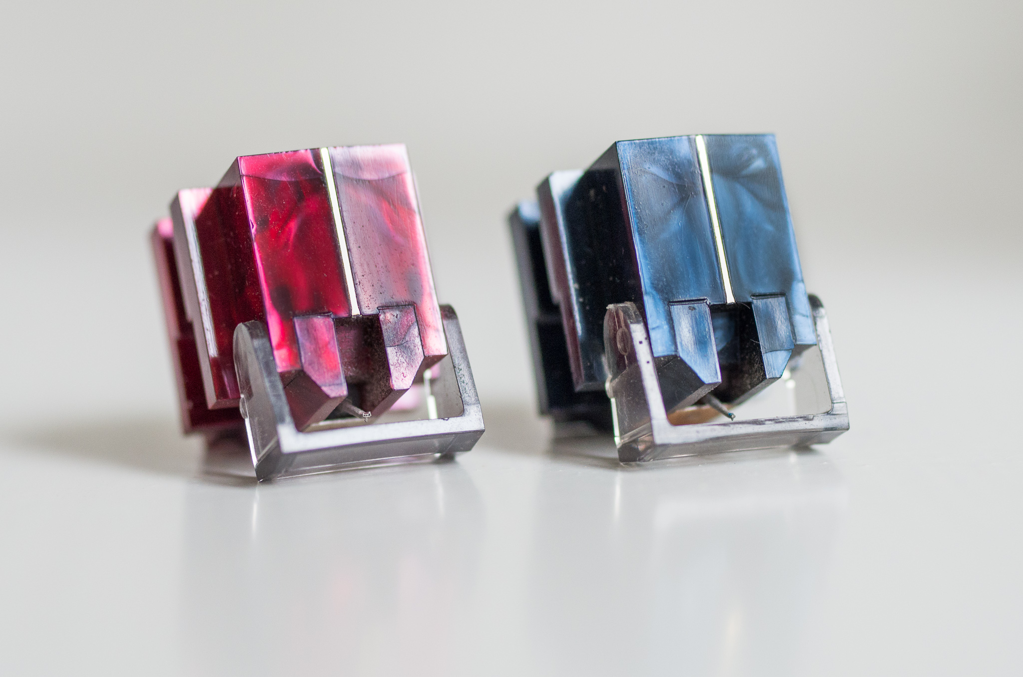 Denon DL-110 and DL-160, the latter sadly discontinued